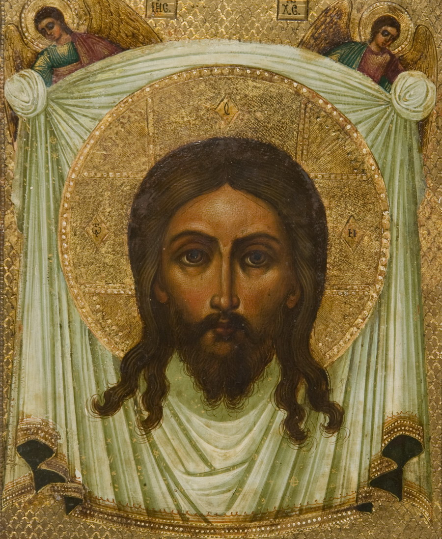 19th century icon of Jesus Christ from Russia. School of Mstera. Private collection.